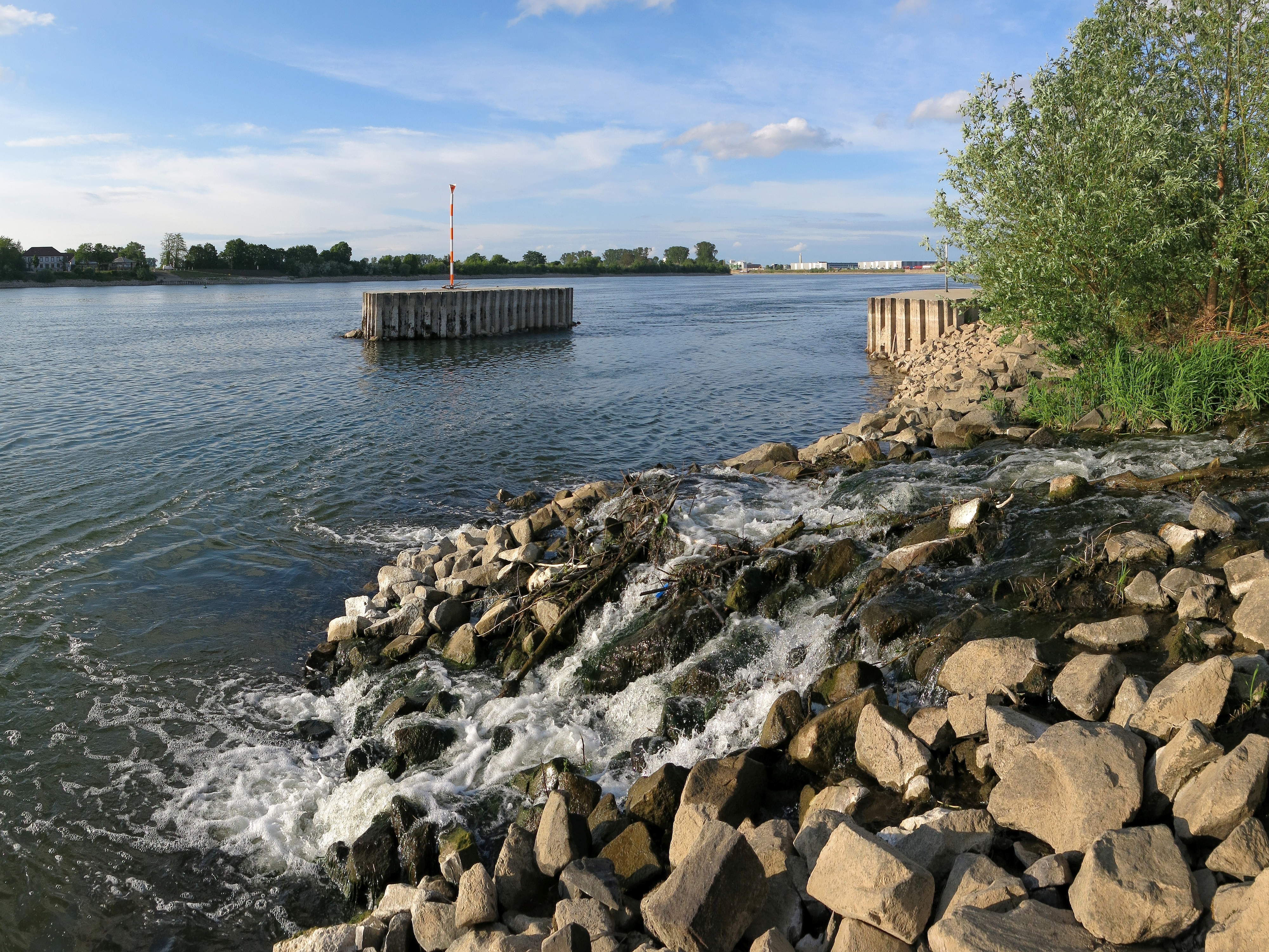 Mouth of the Winkelbach at Gernsheim into the Rhine with remains of the Bridge of Gernsheim, destroyed by German forces in 1945, dismantled in 2015